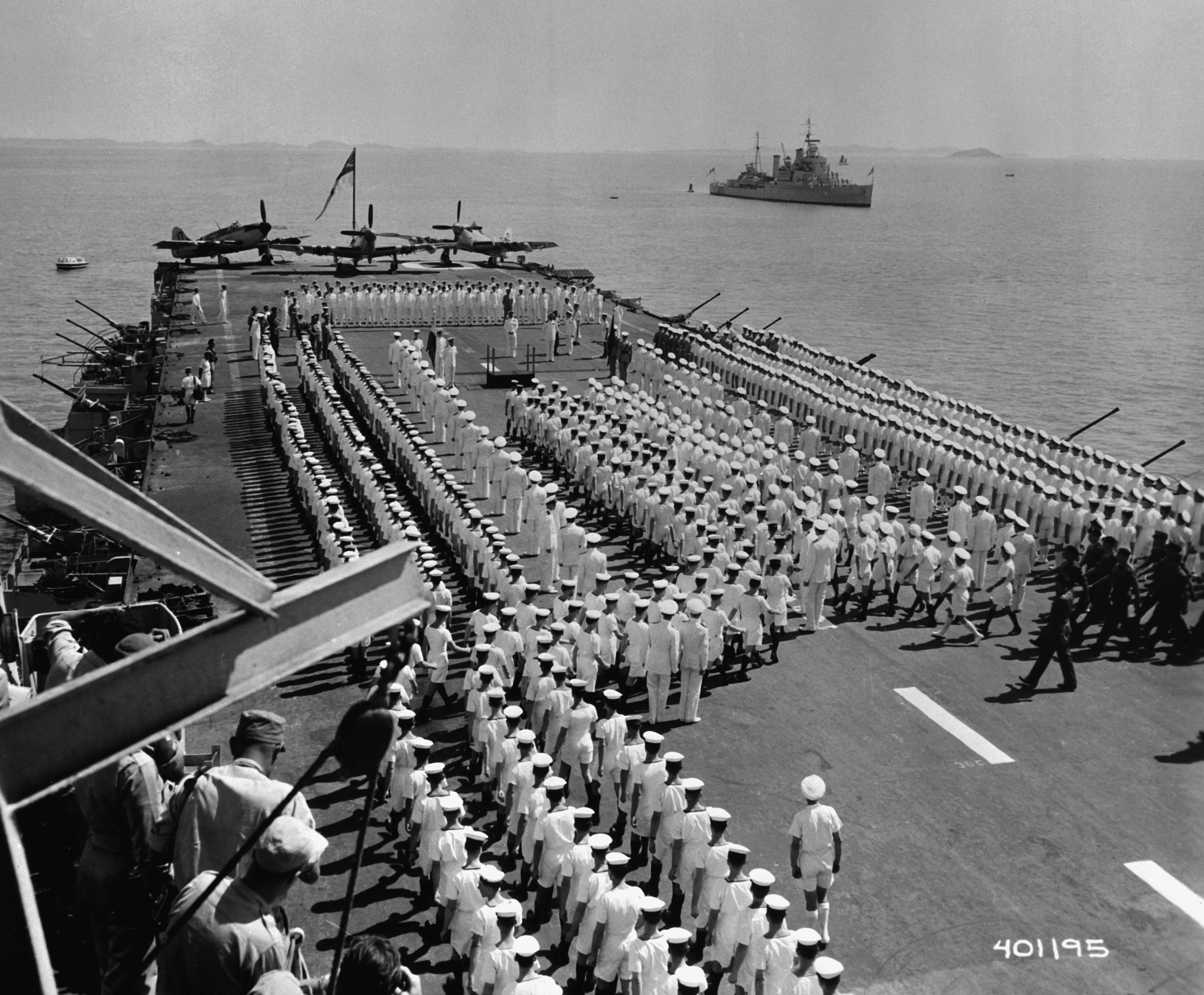 The crew of the British aircraft carrier HMS Ocean (R68) on deck for an inspection by Field Marshal Earl Alexander, Defense Minister of Great Britain, on 14 June 1952.